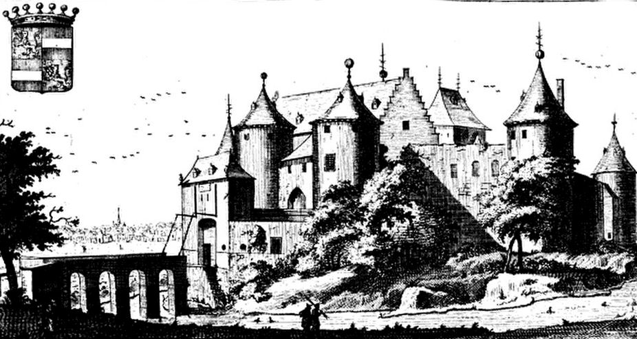 Engraving Brabantia Illustrata/Jacques Le Roy - 1705